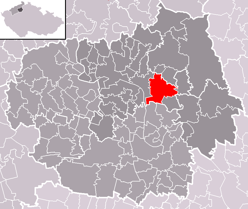 Location of Polepy municipality within Litoměřice District and administrative area of Litoměřice as a Municipality with Extended Competence.